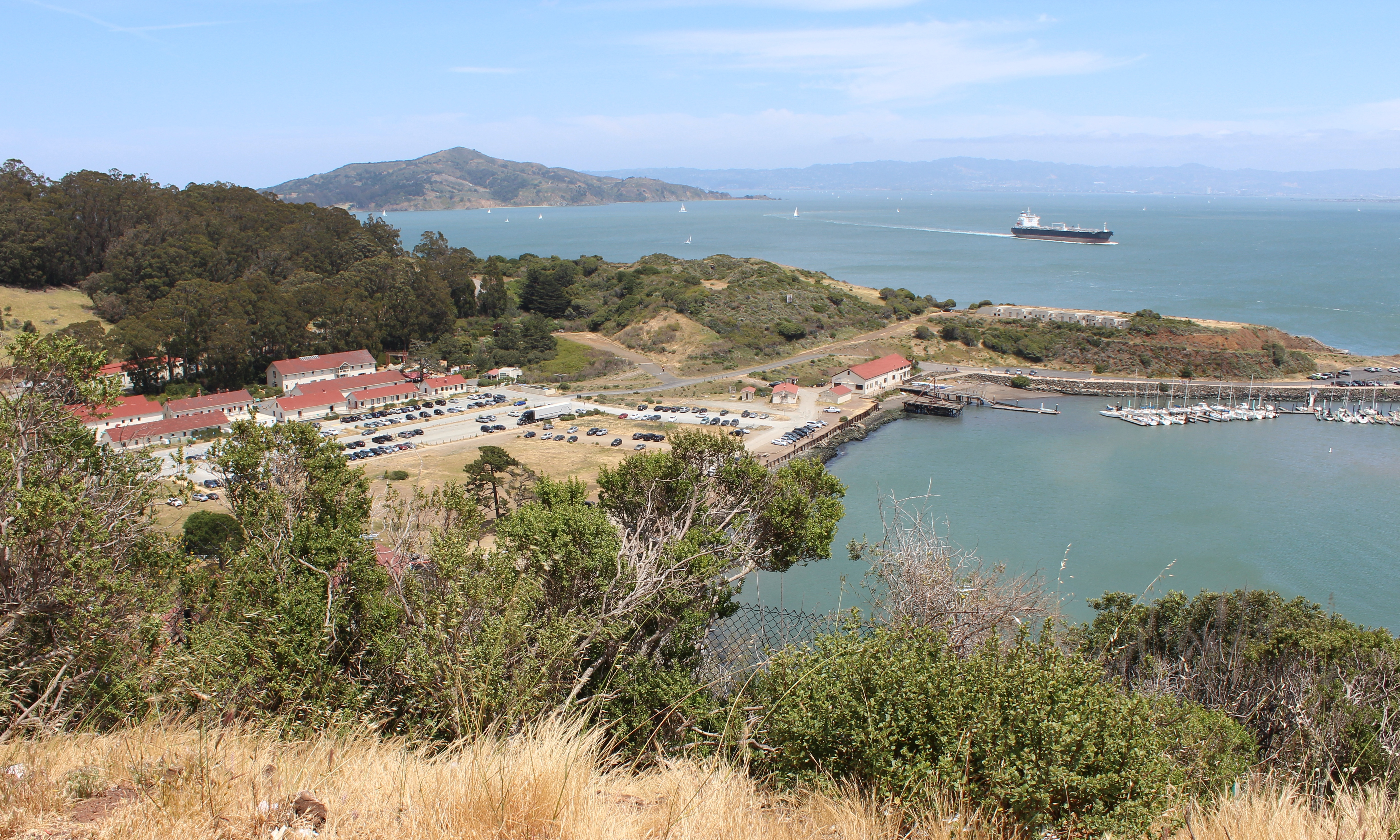 Bay Area Discovery Museum in Sausolito, California.